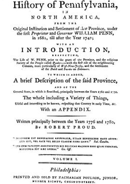 Robert Proud's "The History of Pennsylvania in North America",Vol. I (title page, 1797, public domain).